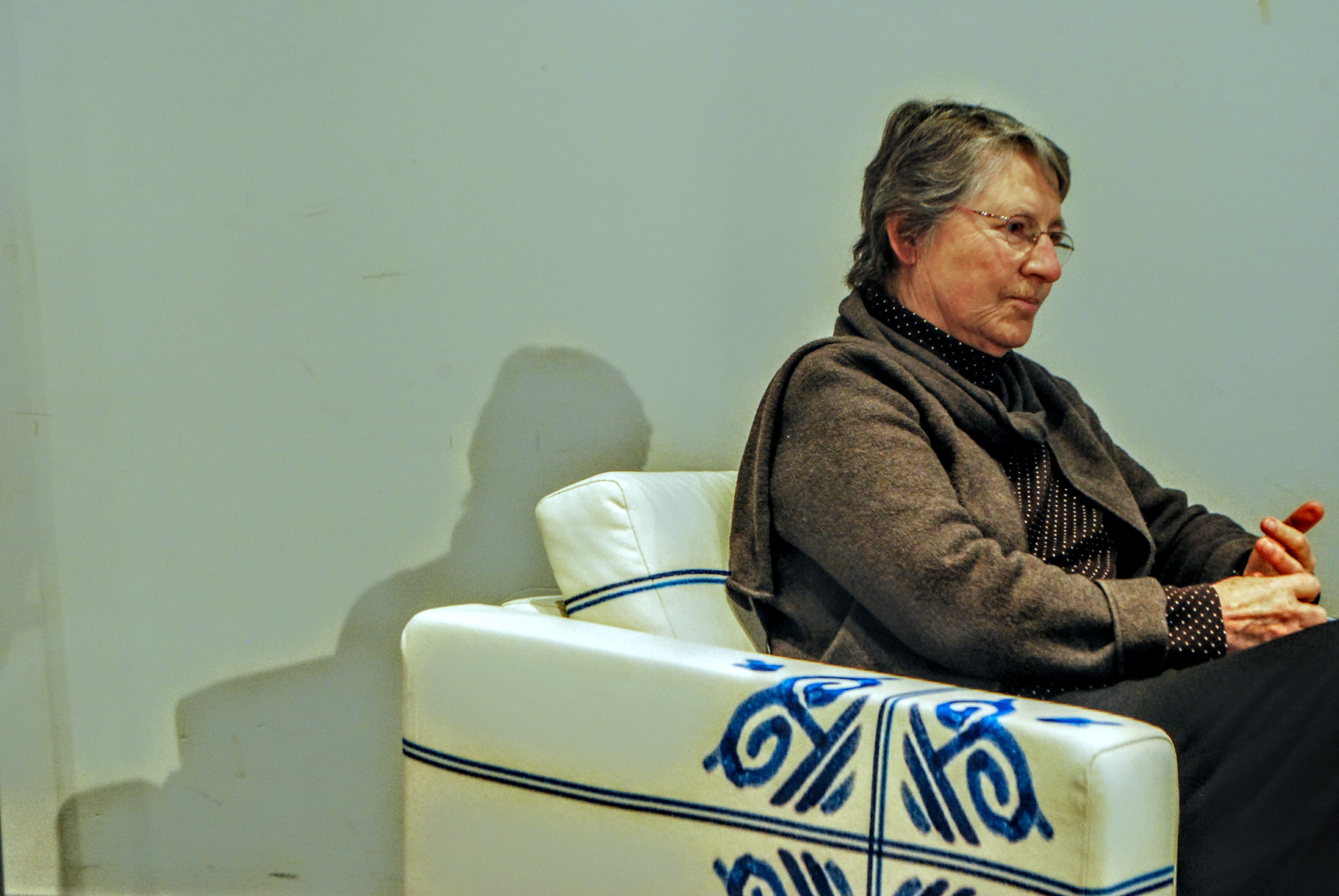 Patsy Healey speaking at the Delft University of Technology, The Netherlands, 2011.